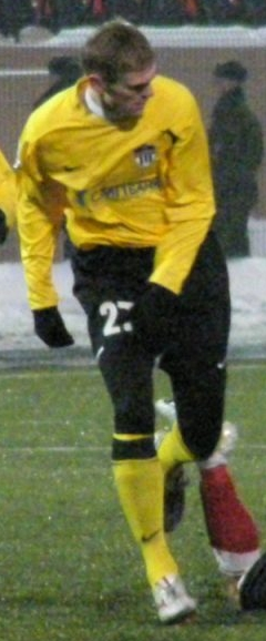 Maxim Zinoviev in action for FC Khimki